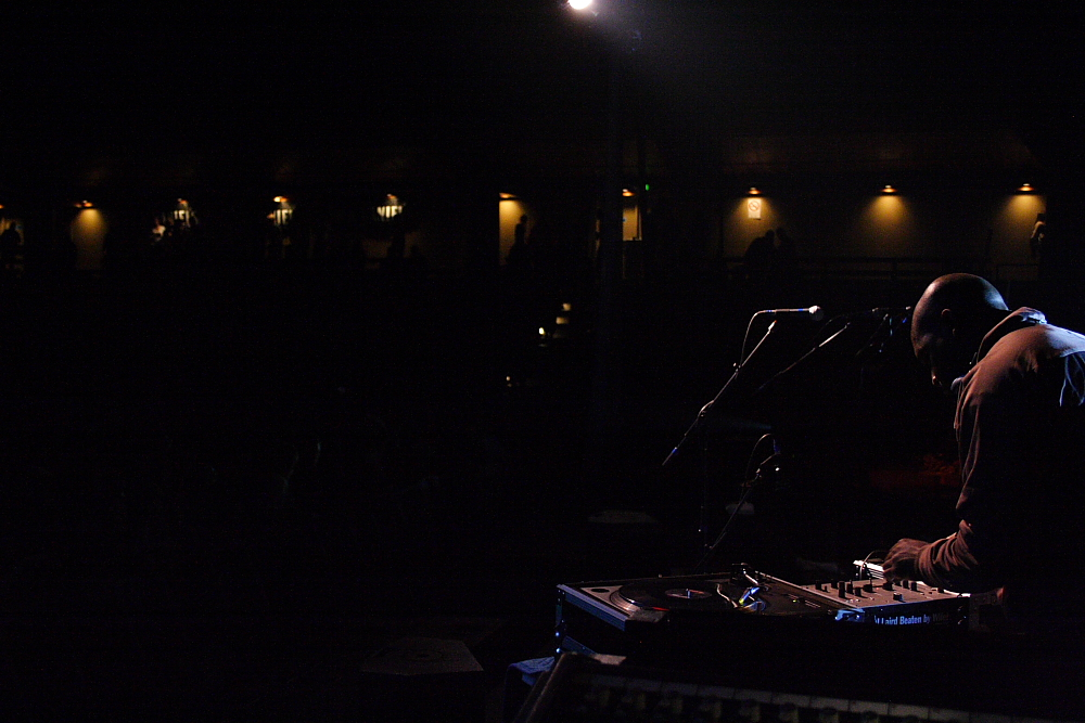 DJ Logic performing at the 2008 Vail Snow Daze at Dobson Ice Arena in Vail, CO. Photo by Mike Hardaker of the Mountain Weekly News